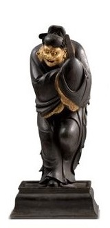 a sculpture of the Chinese infernal clerk Jian Ban 中文（中国大陆）: 酆都（冥府）の監生案の判官——班簡 の立像